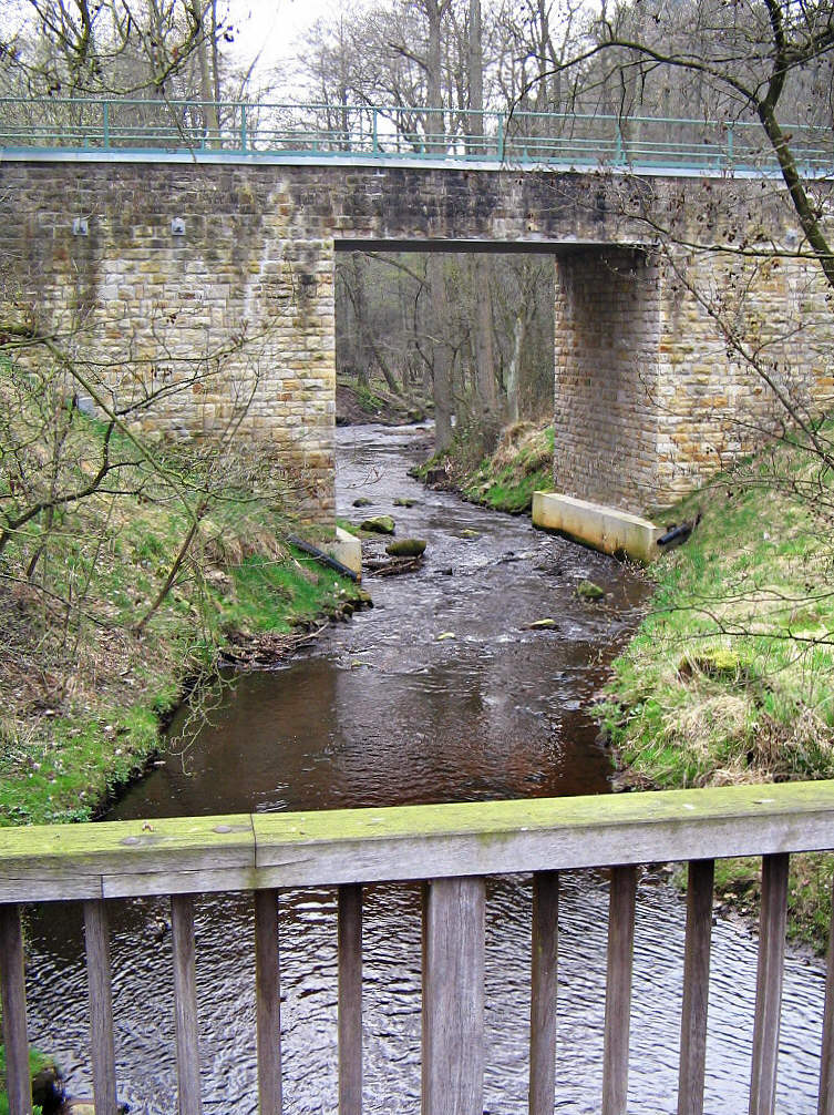 Bridge of railway Bomlitz-Walsrode over Bomlitz river, Lower Saxony, Germany